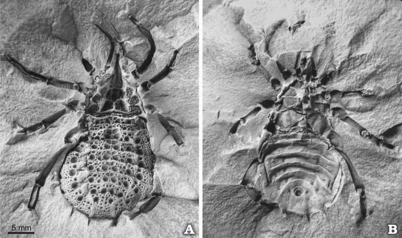 Photograph of Hollier’s specimen (BU 699, Lapworth Museum, University of Birmingham, UK) of Eophrynus prestvicii (Buckland, 1837), whitened with ammonium chloride to improve contrast. A. Dorsal view. B. Ventral view.